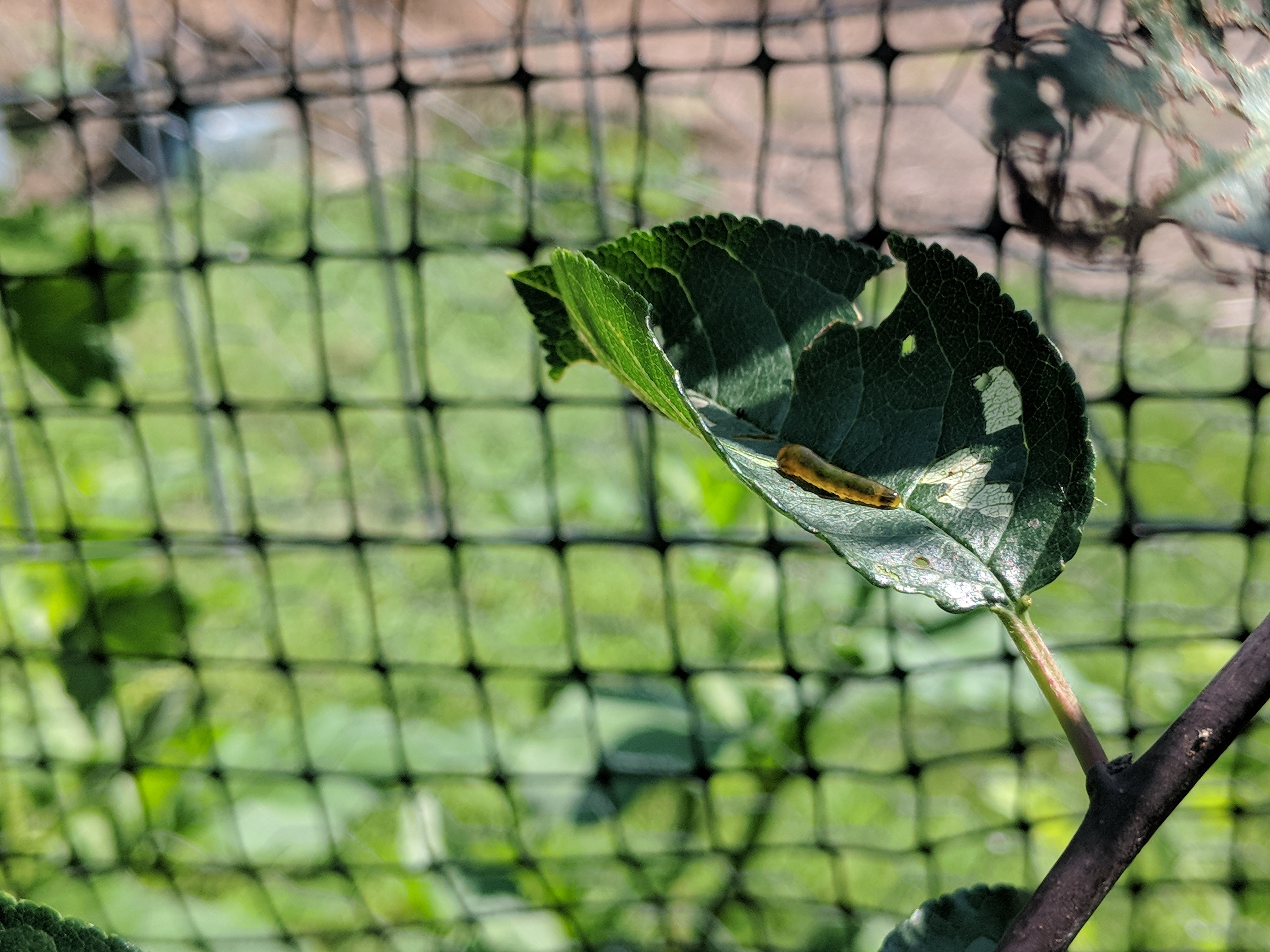 Pear Slug (Caliroa cerasi) Larva on a Plum Tree in Iowa, USA